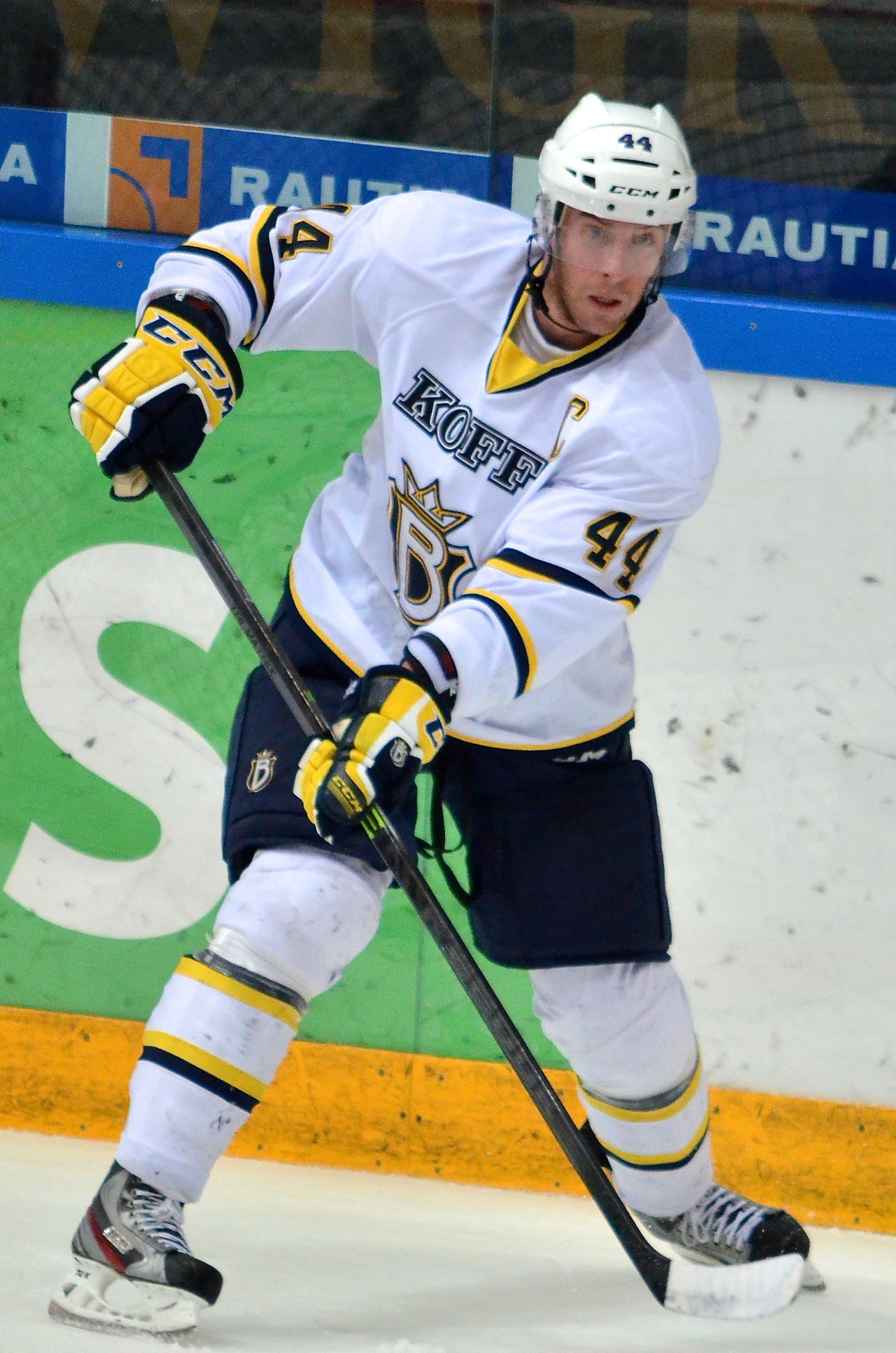 Finnish ice hockey forward Kim Hirschovits playing for Espoo Blues in an SM-liiga preseason game against Tampere Ilves in Tampere, Finland.